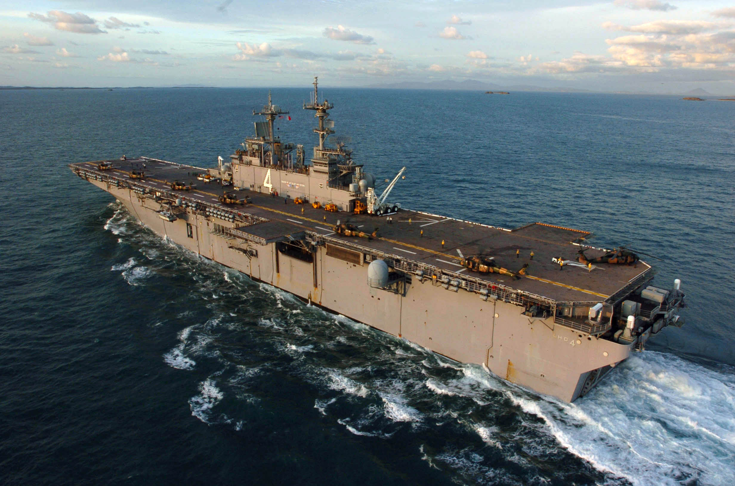 Shoalwater Bay (June 19, 2005) – The amphibious assault ship USS Boxer (LHD 4) prepares to launch Australian S70A-9 Black Hawk helicopters during flight operations in support of the combined exercise, Talisman Sabre 2005. Talisman Sabre is an exercise jointly sponsored by the U.S. Pacific Command and Australian Defence Force Joint Operations Command, and designed to train the U.S. Seventh Fleet commander's staff and Australian Joint Operations staff as a designated Combined Task Force (CTF) headquarters. The exercise focuses on crisis action planning and execution of contingency response operations. U.S. Pacific Command units and Australian forces will conduct land, sea and air training throughout the training area. More than 11,000 U.S. and 6,000 Australian personnel will participate. U.S. Navy photo by Photographer's Mate 3rd Class James F. Bartels (RELEASED)